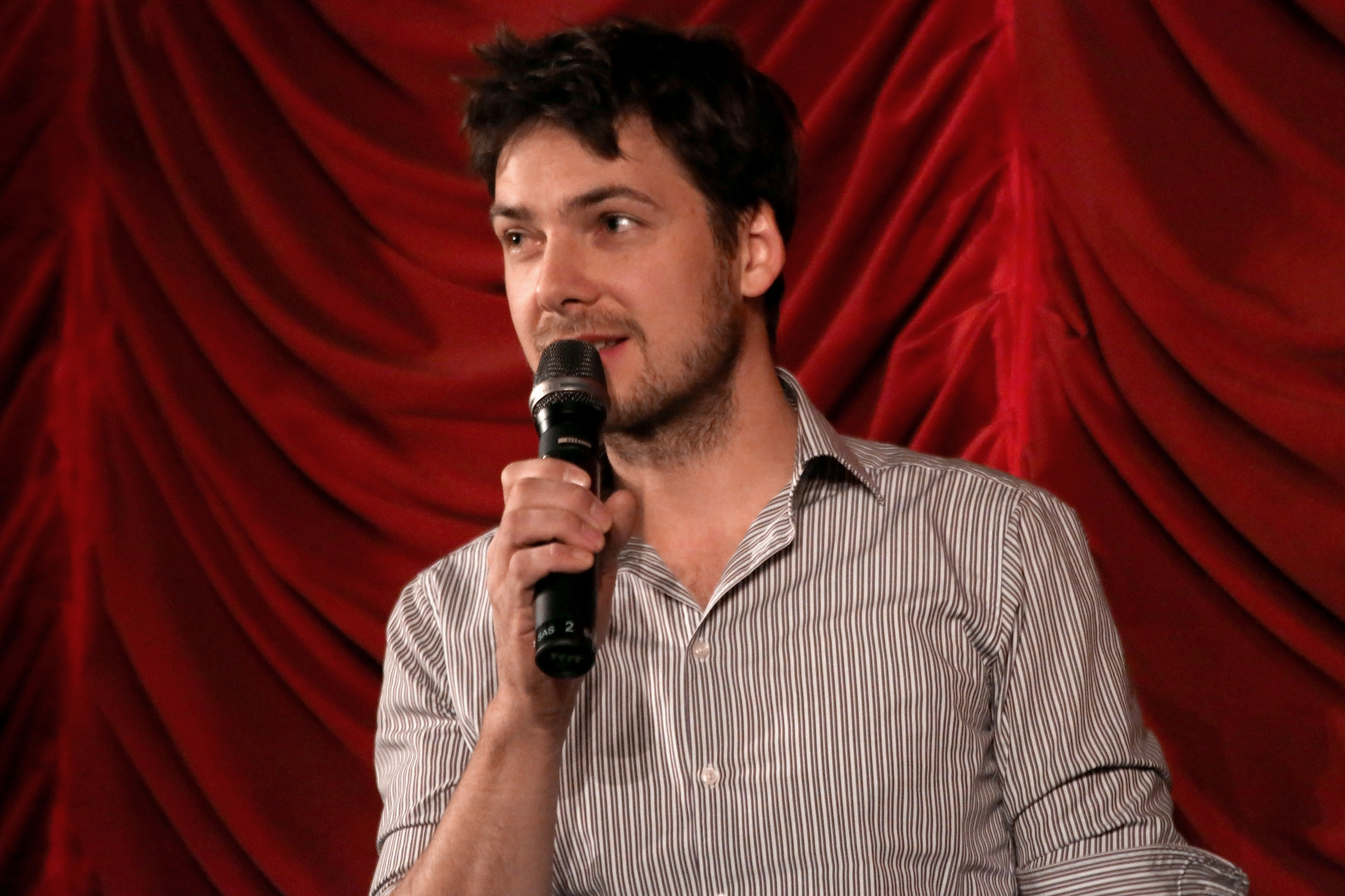 Actor Stefan Pohl at the Austrian premiere of Crossing Borders (Grenzgänger), Vienna International Film Festival 2012, Gartenbaukino.